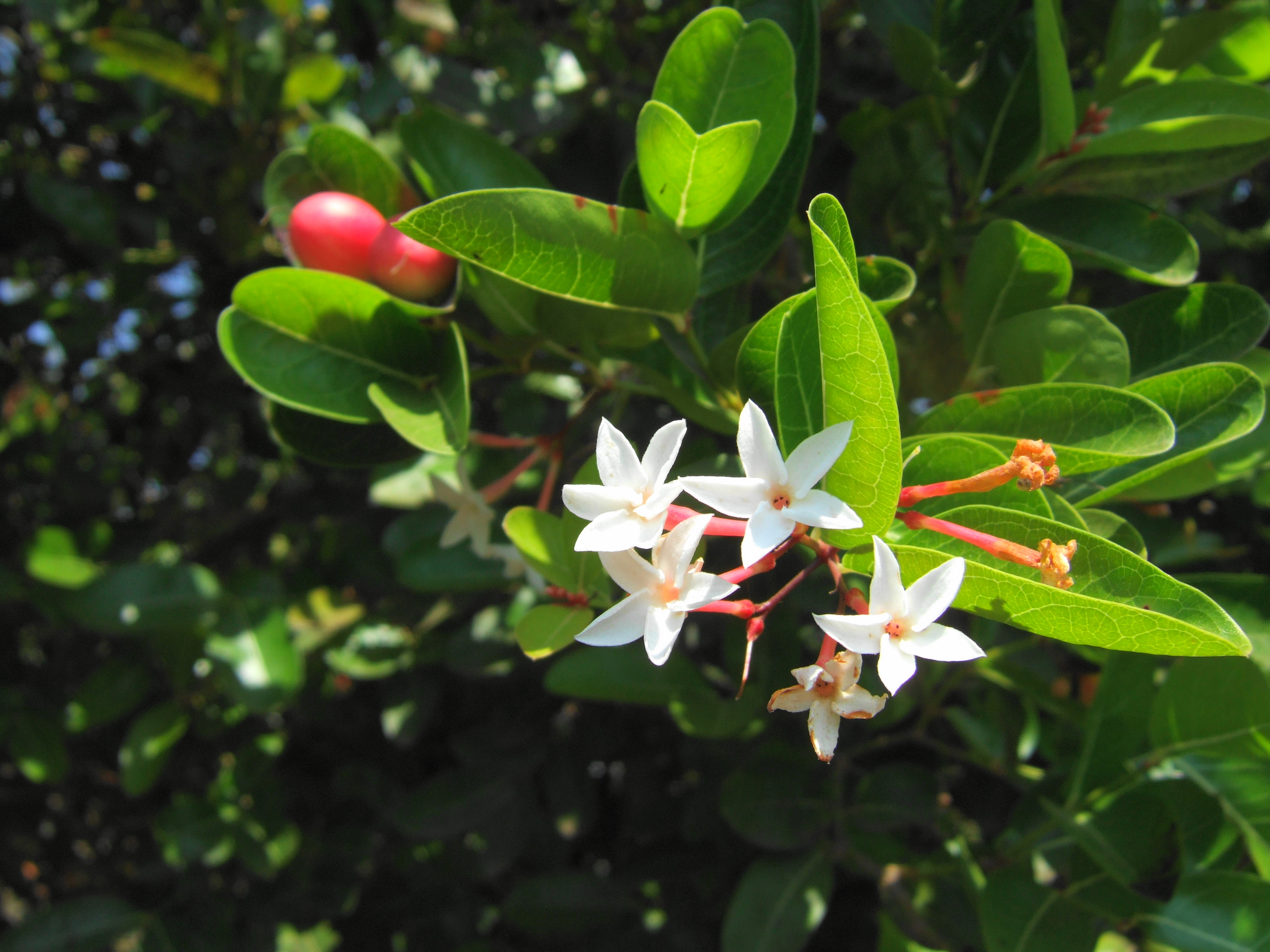 Karonda, Carissa carandas L., Taman Wisata Mekar Sari, Cileungsi, Bogor, West Java, Indonesia.